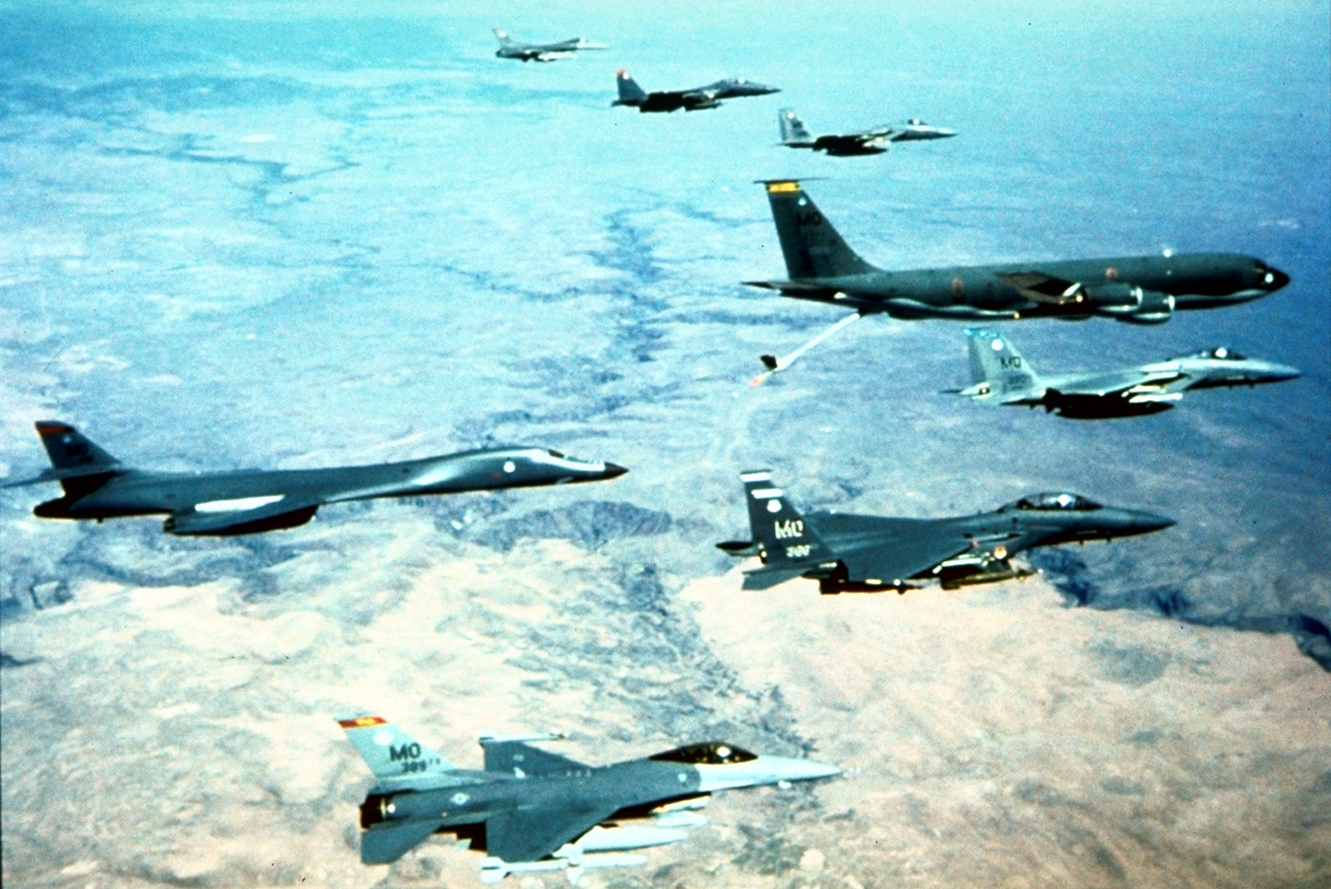 Composite air wing from Mountain Home Air Force Base, Idaho, USA. In the wing are F-15 fighters, F-16 fighters, a KC-135 tanker, and a B1-B bomber.